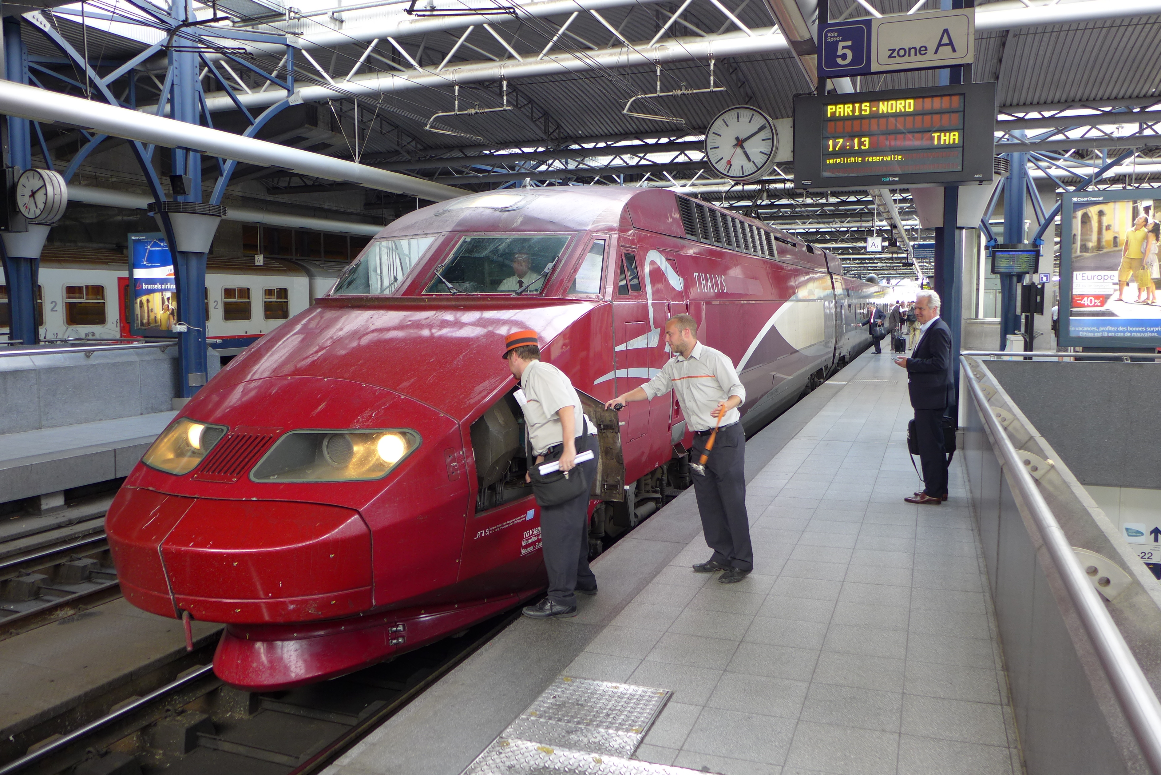 Thalys train no. THA 9364 departs from Amsterdam Centraal, the Netherlands, at 14:18 in the form of a single Thalys PBA unit, and heads to Brussels-South (Bruxelles-Midi/Brussel-Zuid), Belgium, where it arrives at 17:08 and teams up with a second PBA unit. At 17:13, the augmented train, still designated as THA 9364, departs for Paris Nord, France, which it is scheduled to reach at 18:35.In this photo, PBA unit no. 4539 has arrived at Brussels-South with the Amsterdam to Brussels portion of the train, and platform staff are getting ready to retract the aerodynamic cover over its Scharfenberg coupler, so that it can couple to the other PBA unit waiting ahead of it.